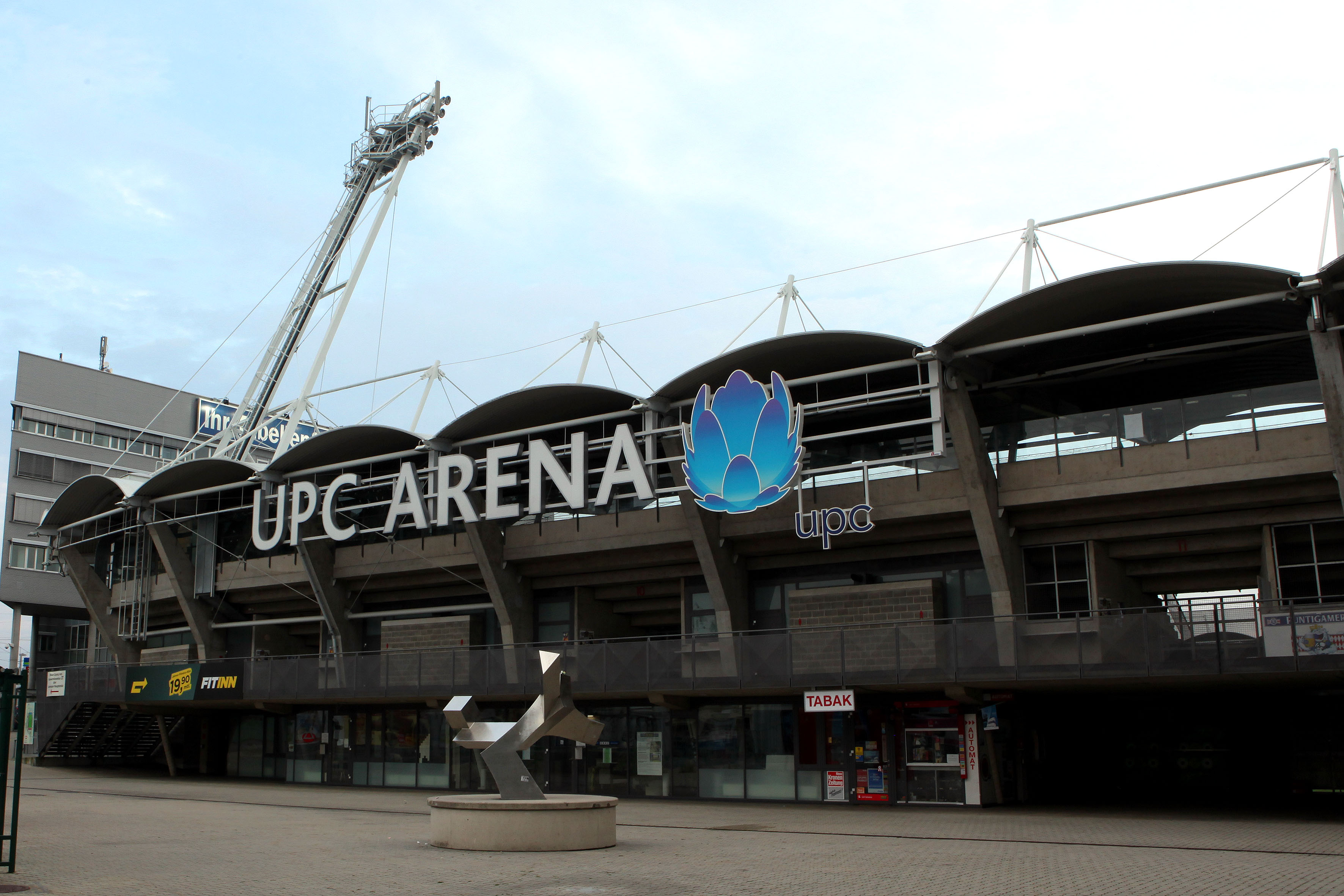 UPC Arena Nord